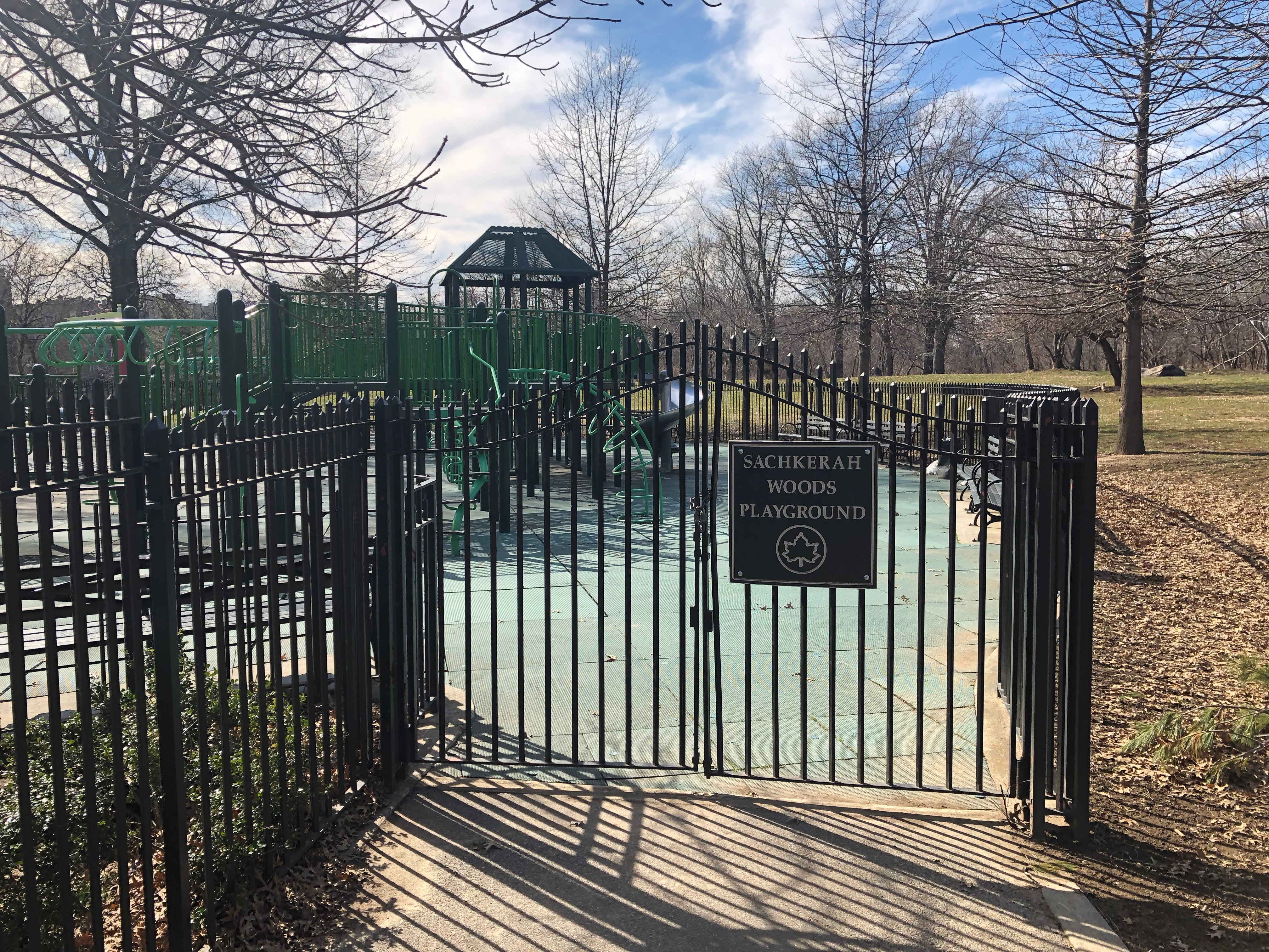 Sachkerah Woods Playground in the southeast corner of Van Cortlandt Park , Bronx. Adjacent to and accessible from the Norwood, Bronx neighborhood.